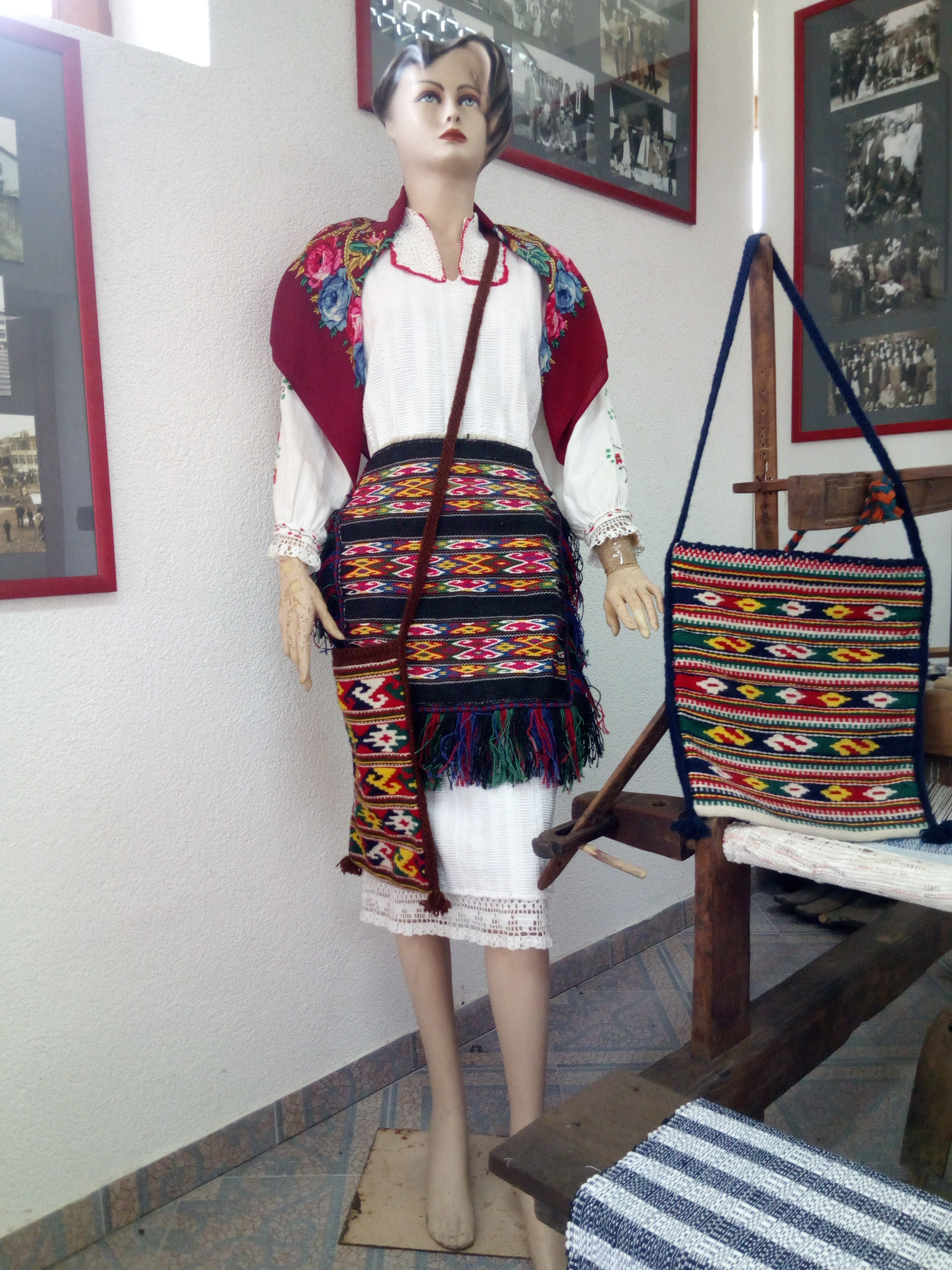 Ethnographic collection, Novi Grad, Republic of Srpska